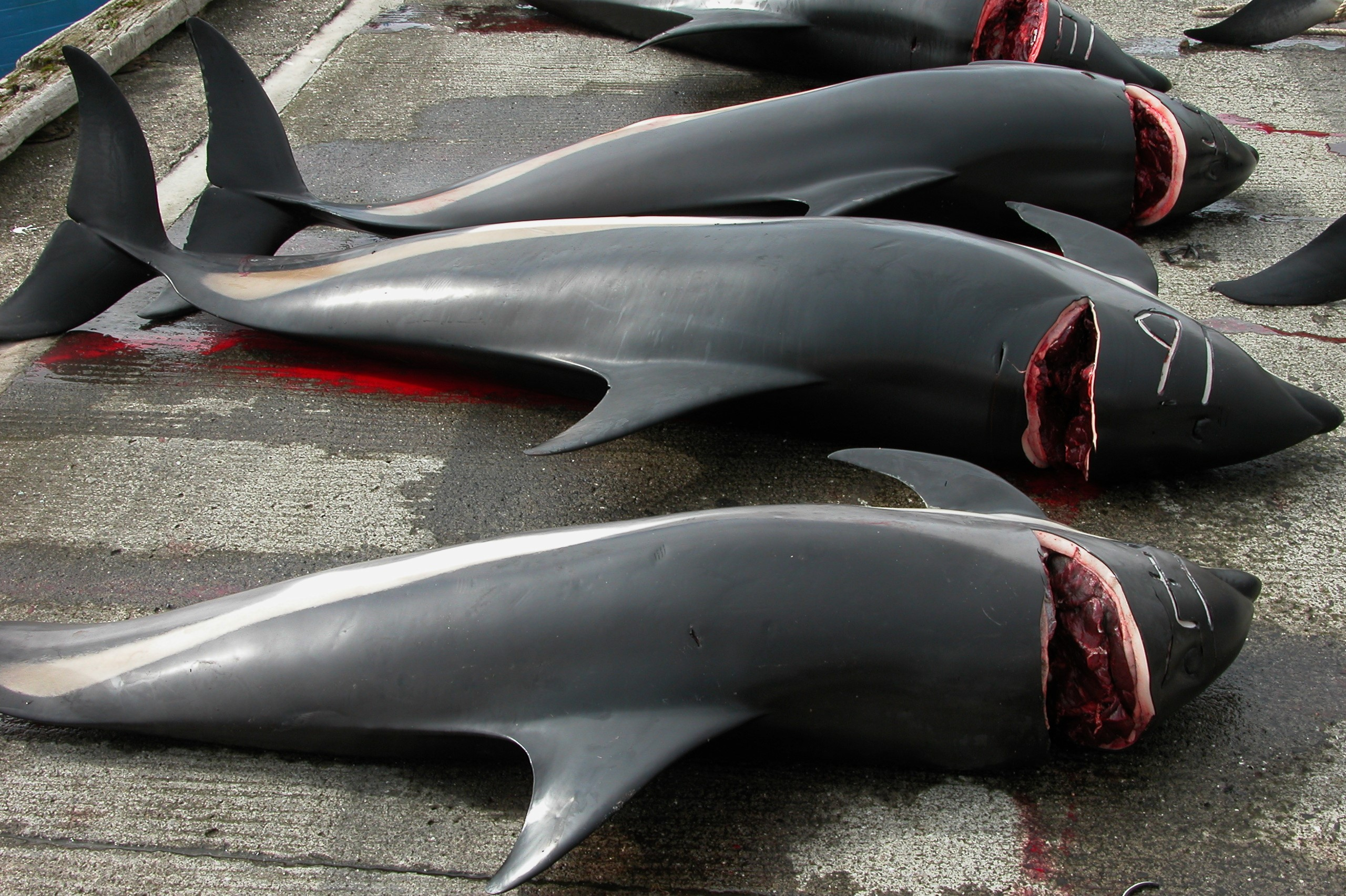 [Help with translations!] Atlantic white-sided dolphin, Faroe Islands